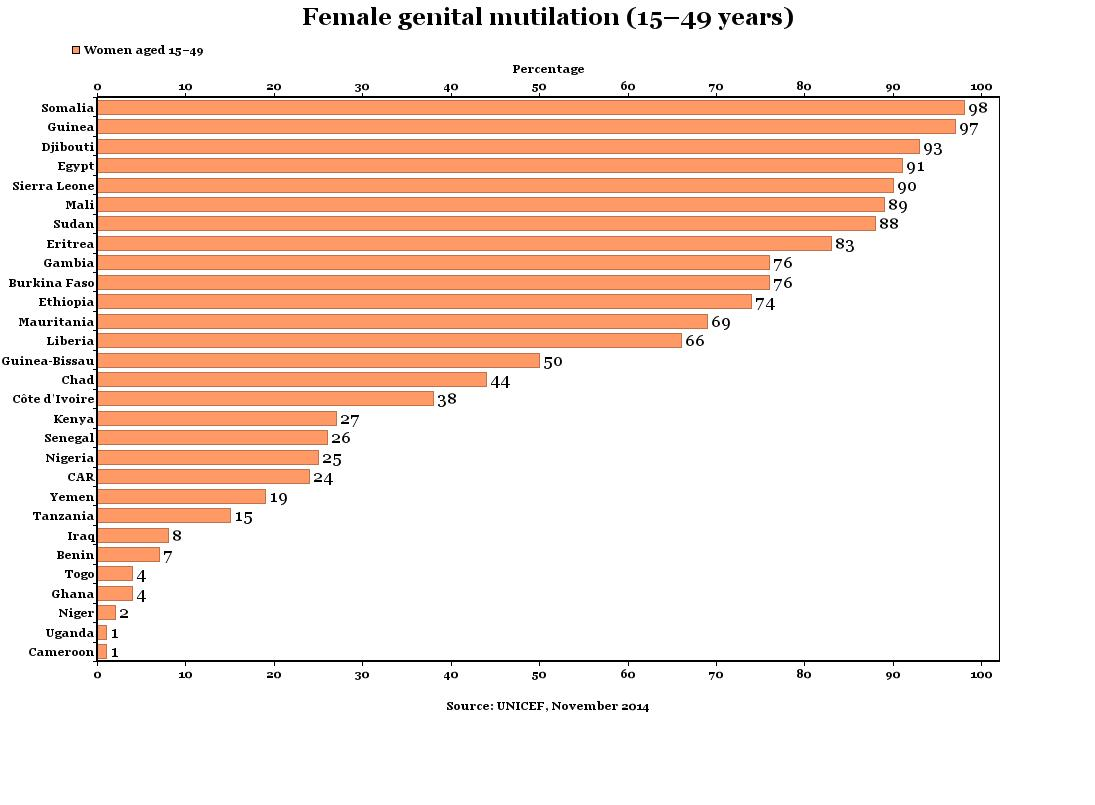 Prevalence of female genital mutilation for women aged 15–49 years, in 29 countries in which FGM is known to be concentrated.